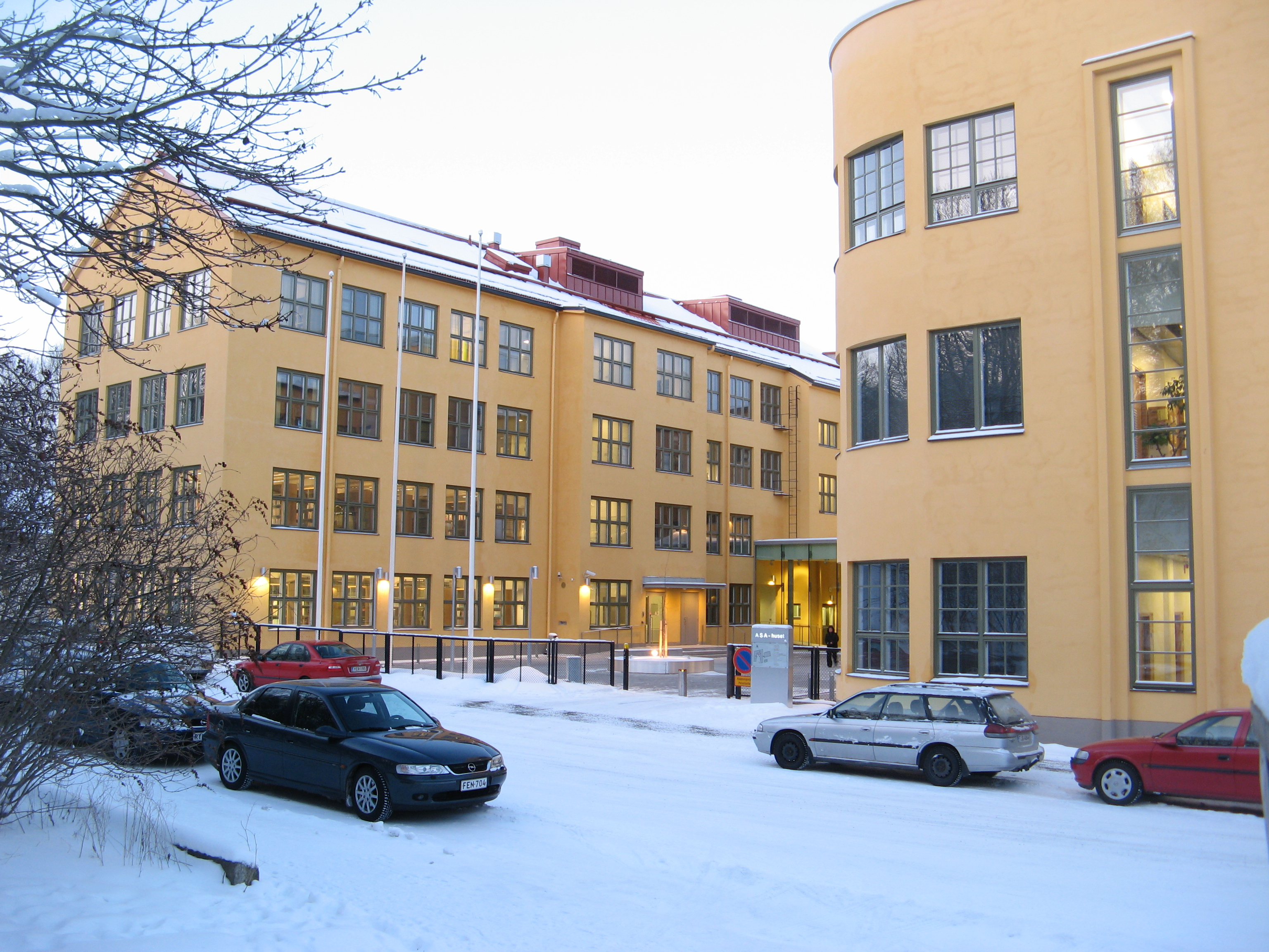 The ASA-house of Åbo Akademi Unversity in January 2010.